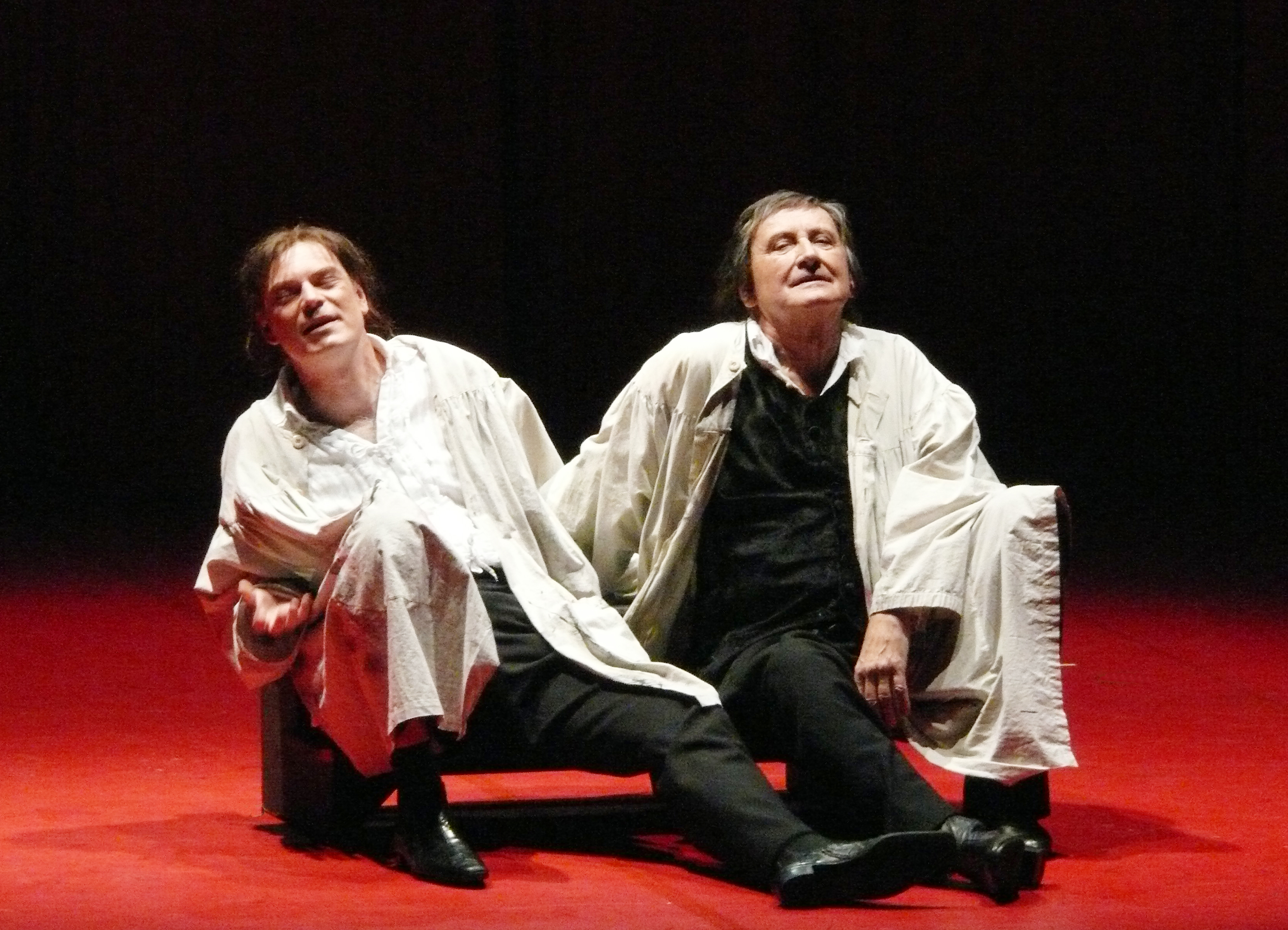 Dieter Wien (right) and Oliver Trautwein (left) in the production GOYA (Theater des Ostens) in Wels, October 2007